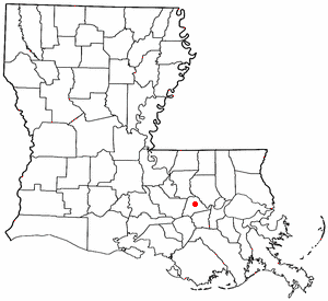 Location of Gonzales in Louisiana Volapük: Topam in tat: Louisiana.